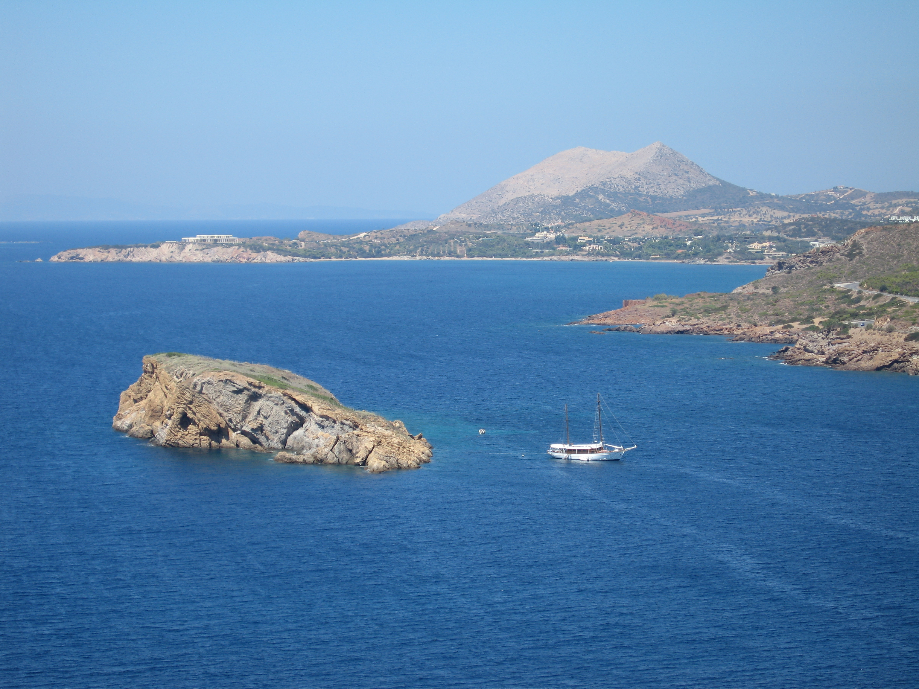 View from Cape Sounion looking west, towards Cape Legrena